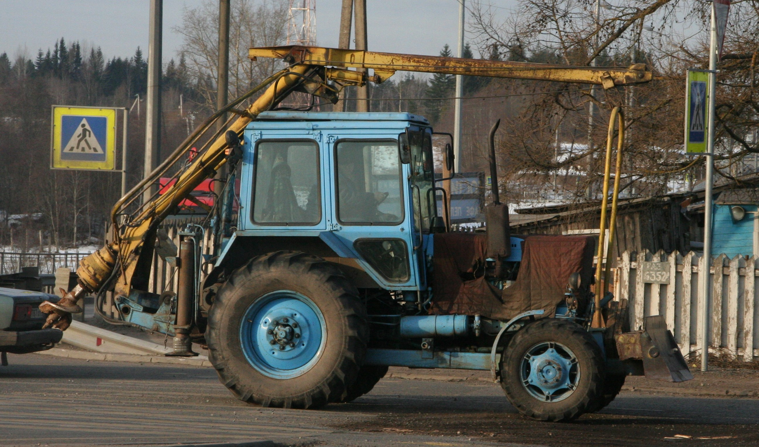 a MTS-82 tractor with earth-drill